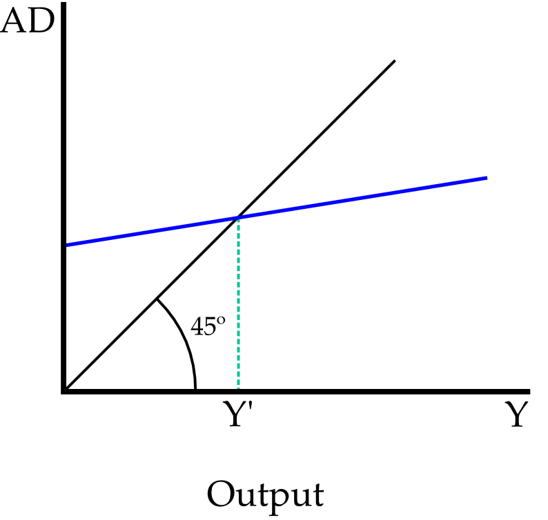 Diagram of a Keynesian cross.